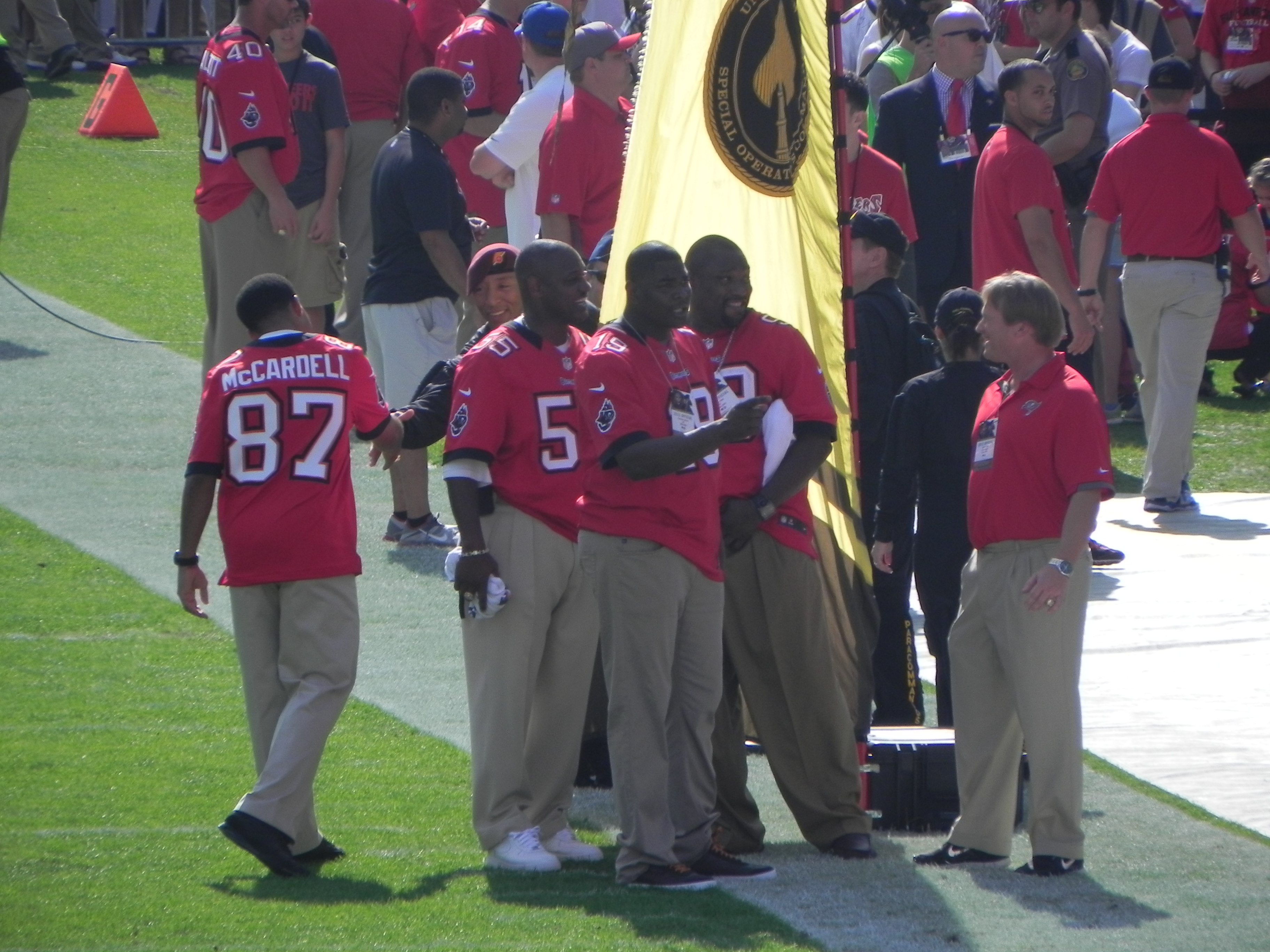 Tampa Bay Buccaneers players from the 2002 team at ten-year reunion held at Raymond James Stadium. on December 9, 2012. From left to right: Keenan McCardell (87), Derrick Brooks (55), Keyshawn Johnson (19), Warren Sapp (99), Jon Gruden. Mike Alstott (40) and Brad Johnson (14) also visible in back.